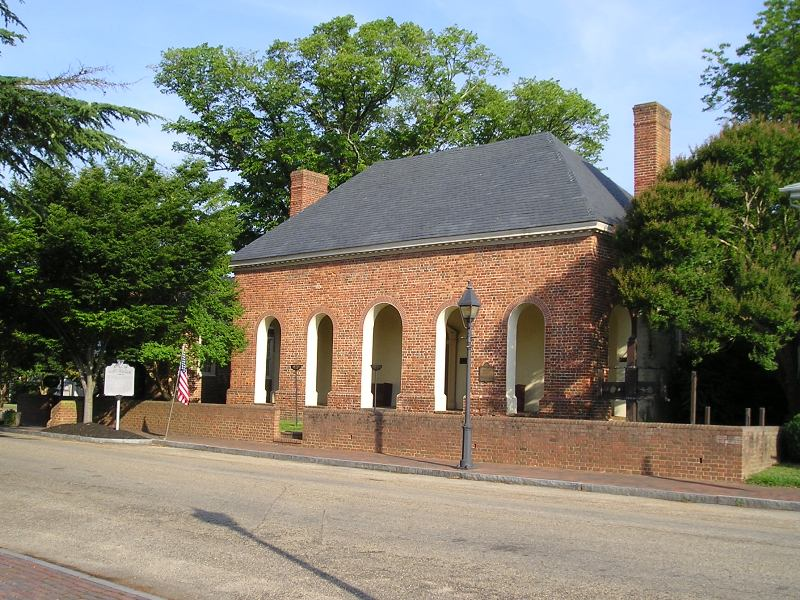 The colonial courthouse on main street in Smithfield, Virginia.